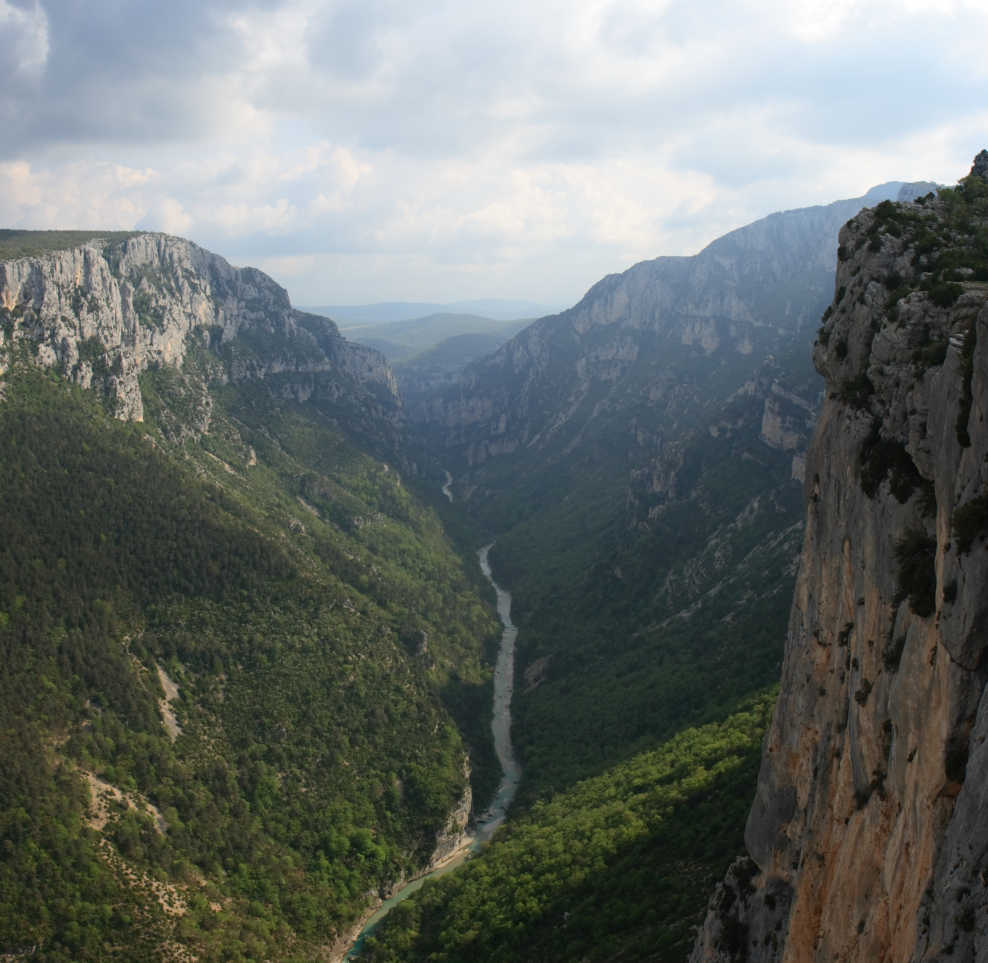 The Verdon canyon, seen from the Trescaire viewpoint. This picture is a cropped vertical panorama made from two pictures.